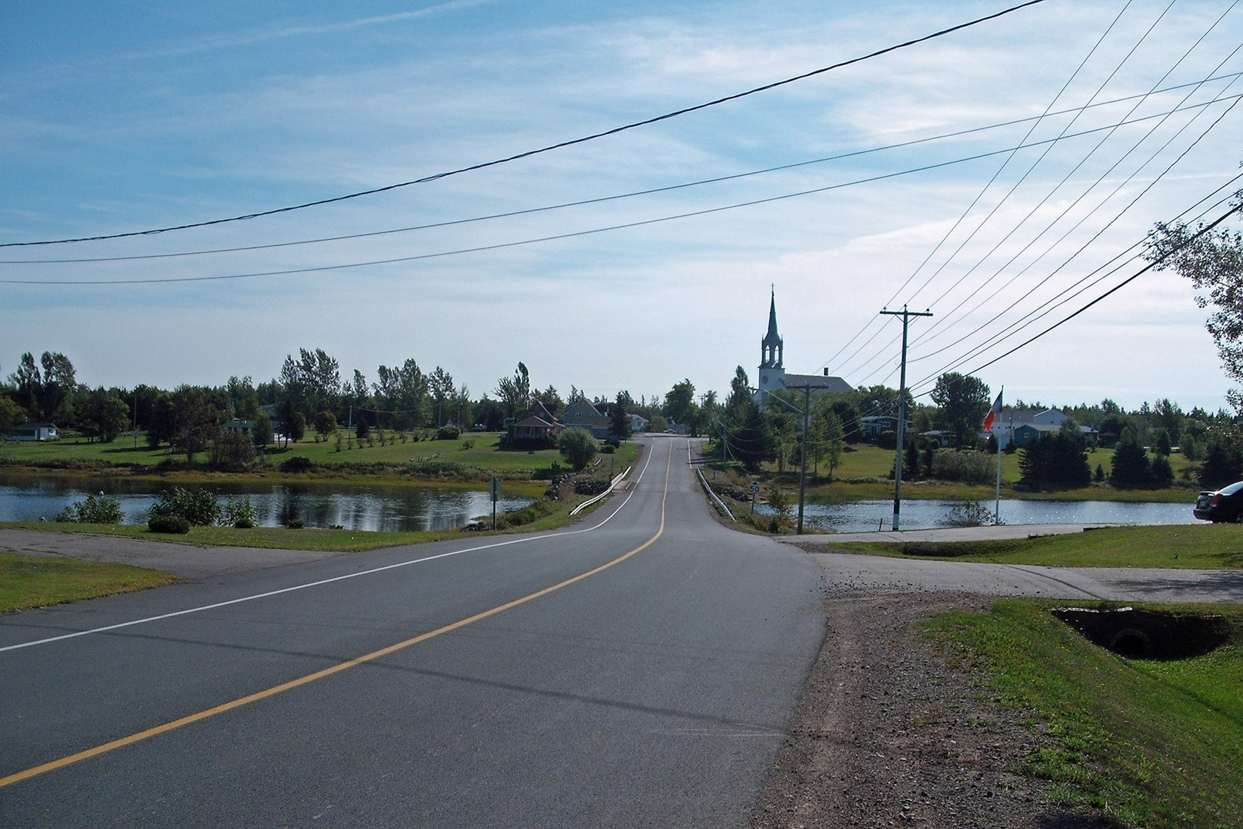 View of Saint-Simon (NB)